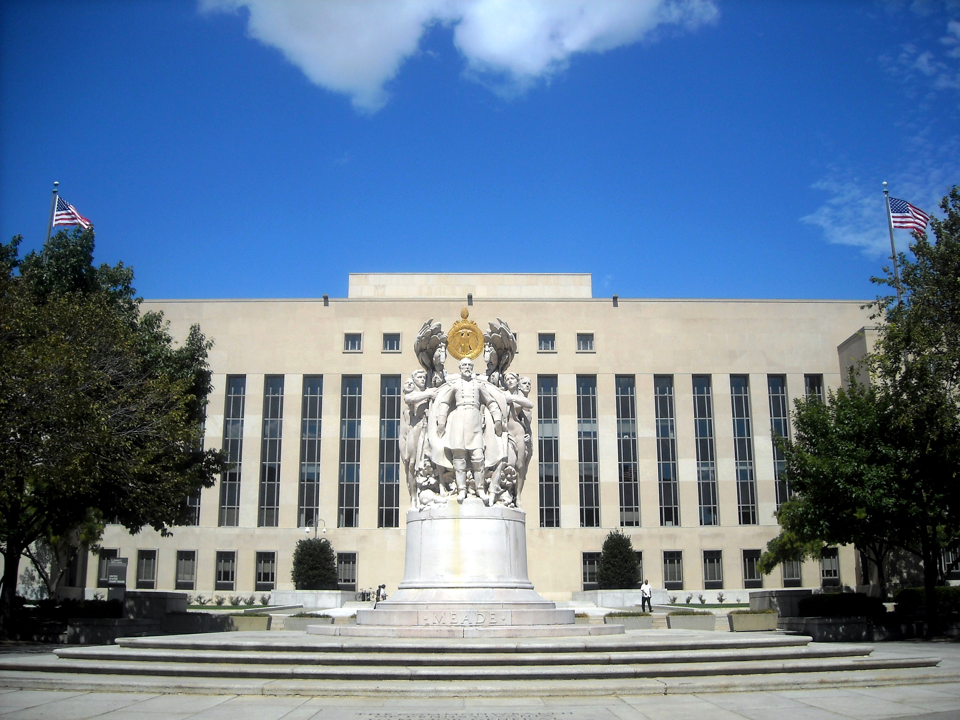 The George Meade Memorial located in front of the E. Barrett Prettyman Federal Courthouse in Washington, D.C.